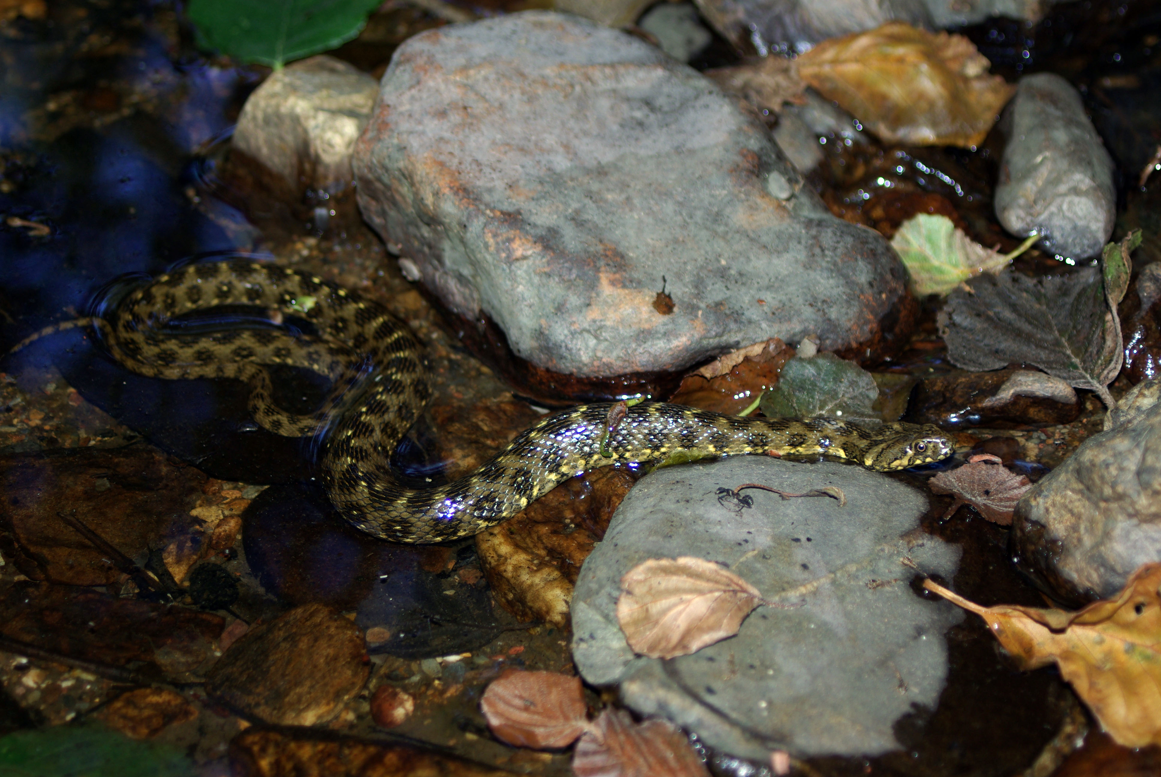 Viperine water snake (Natrix maura). River Manzanas, Zamora (Spain).